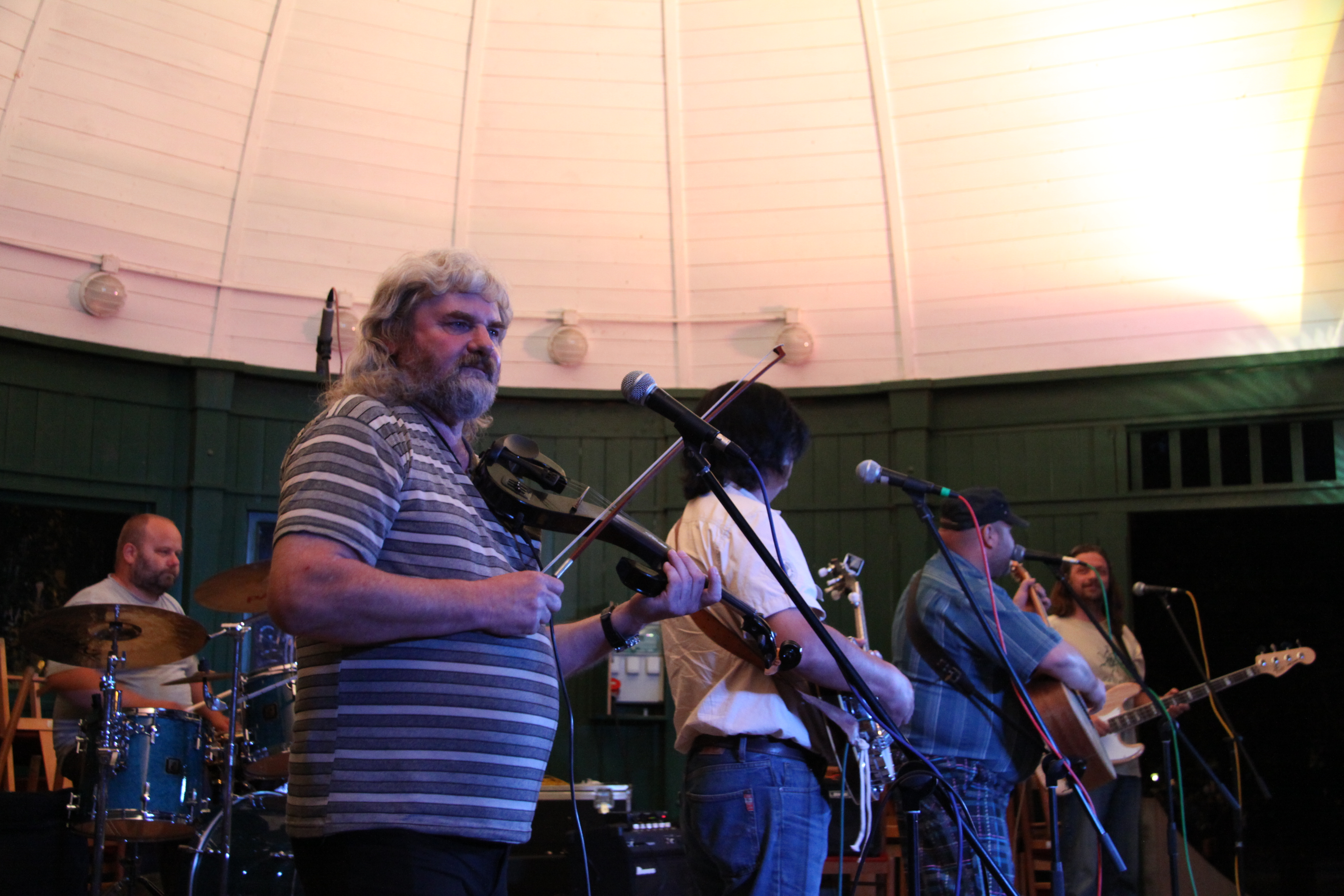 Czech music band Papouškovo sirotci during Písek's celebration "Dotkni se Písku" in 2011, Písek District, Czech Republic - Google Maps - Google Earth Personality rights warning Although this work is freely licensed or in the public domain, the person(s) shown may have rights that legally restrict certain re-uses unless those depicted consent to such uses. In these cases, a model release or other evidence of consent could protect you from infringement claims.